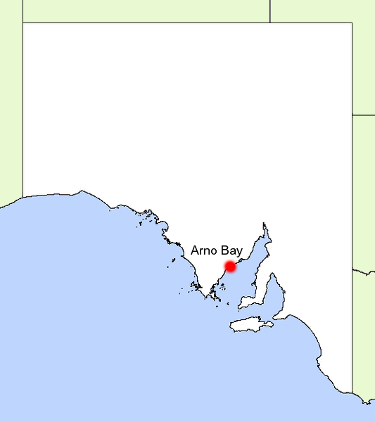 Modification of Dicemans original image found on the commons here; Shows location of Arno Bay. colours modified